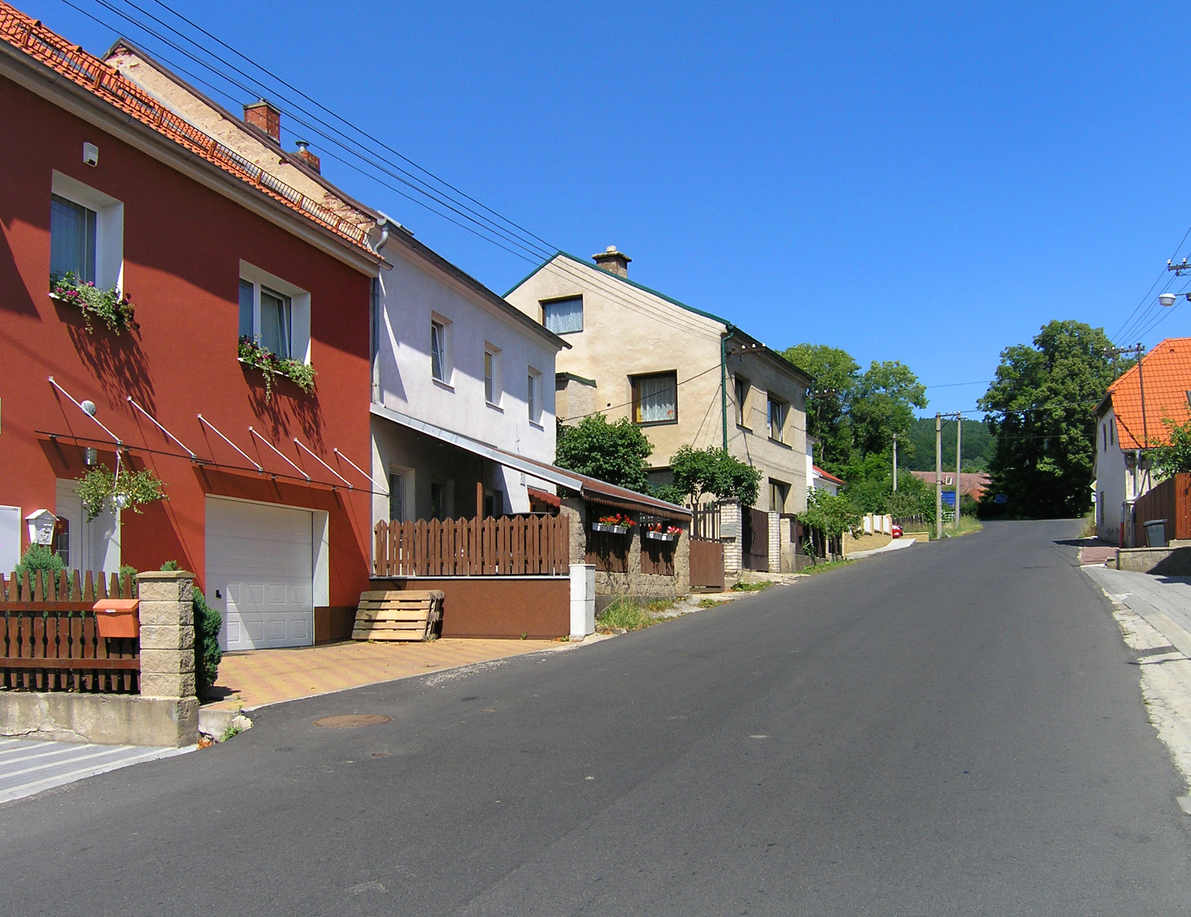 Zátiší street in Střelná, part of Košťany town, Czech Republic